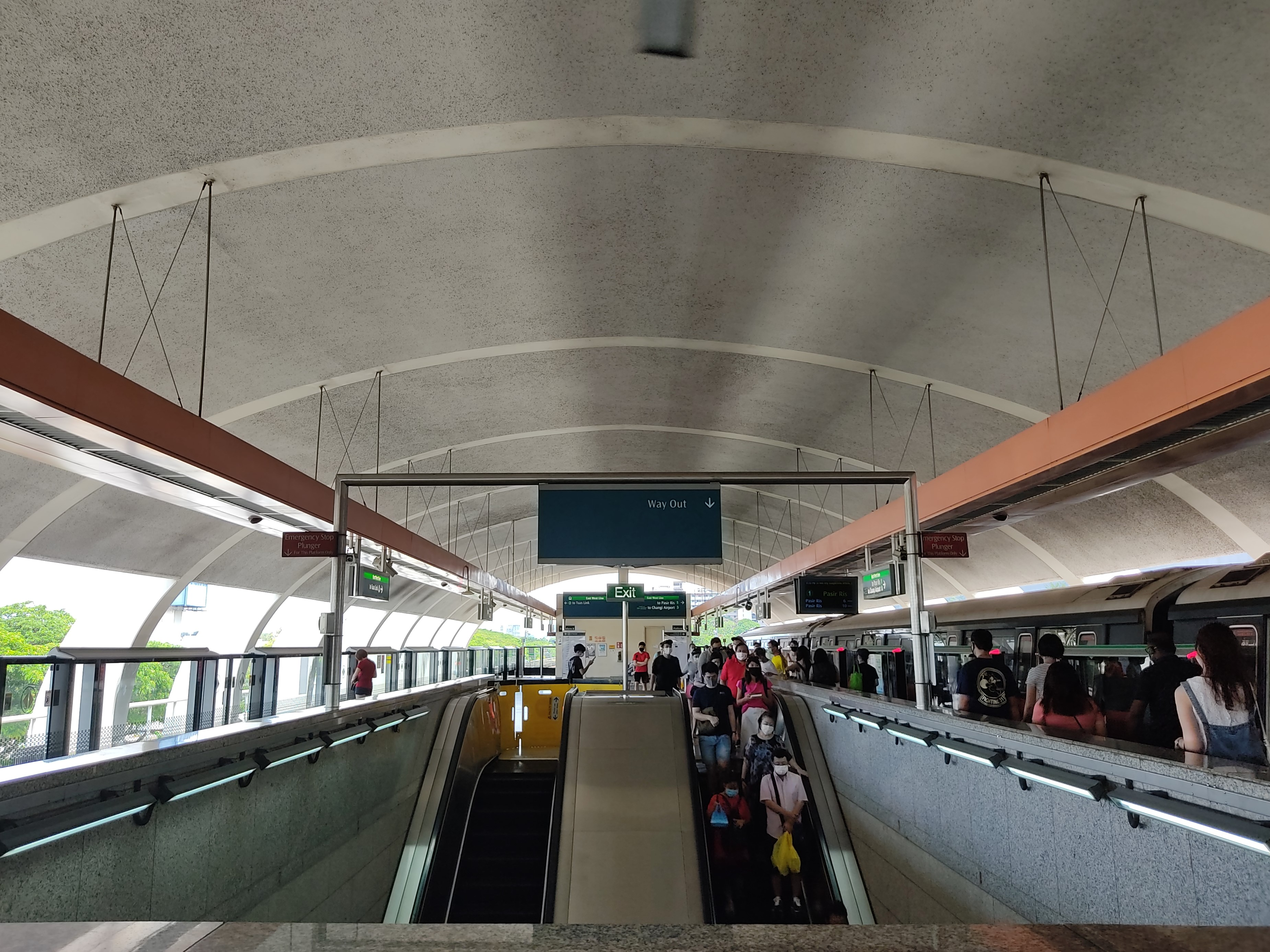 EW5 Bedok MRT Platforms